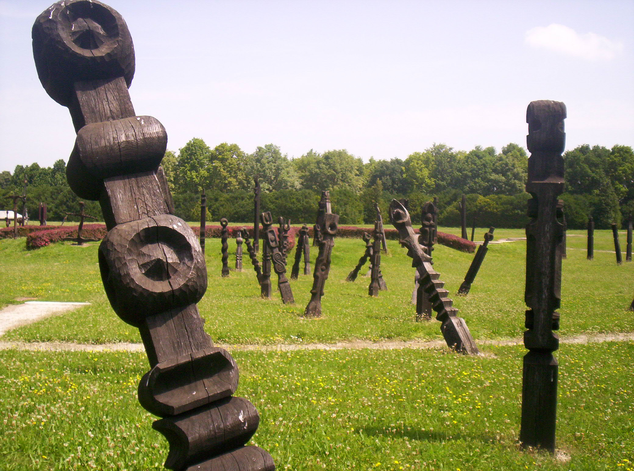 Mohács Historical Monument (Battle of Mohács, 1526) – photo taken by uploader User:Csanády in 2006.